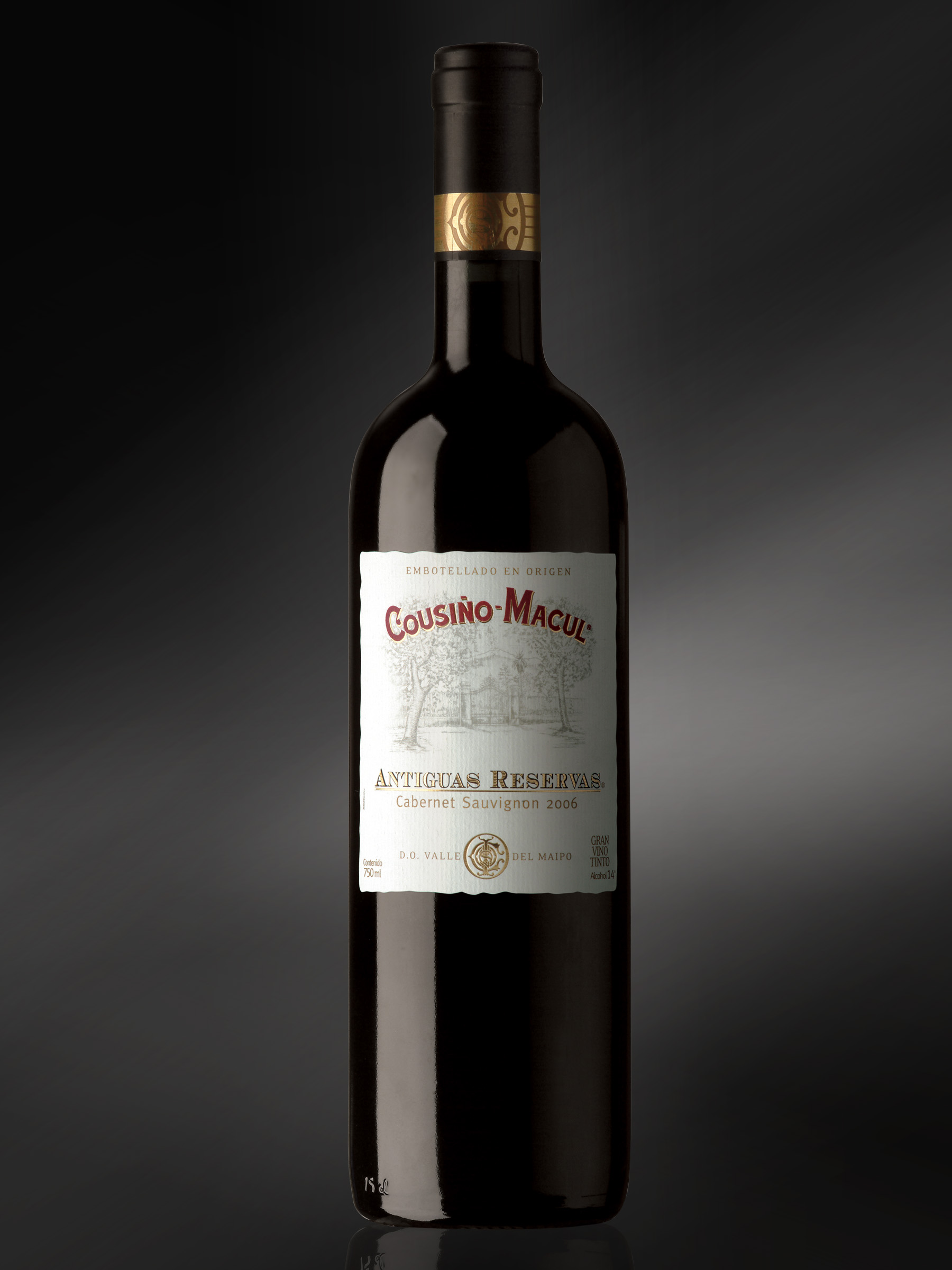 Image of Antiguas Reservas wine from cousino Macul winery